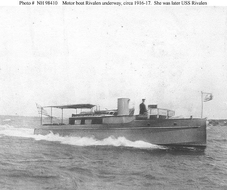 Motorboat Rivalen in 1916-1917, prior to her 1917-1919 United States Navy service as patrol boat USS Rivalen (SP-63)